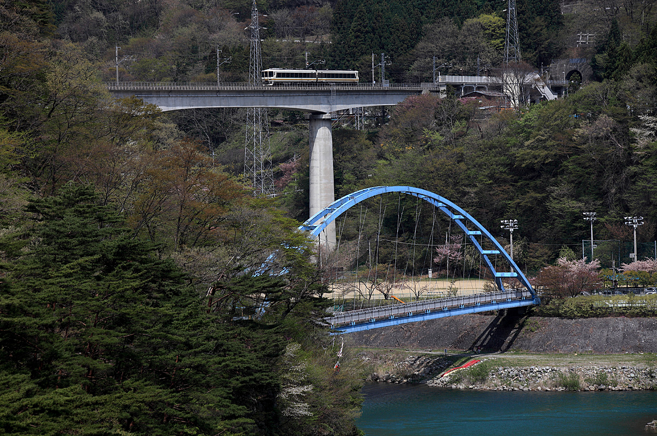 Auzu Railway Kiha 8500 series DMU